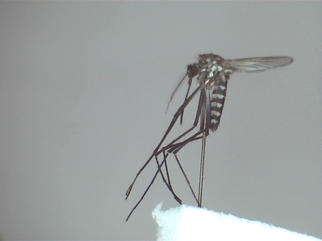 Female Skusea pembaensis reared from Cardisoma carnifex, mangrove near Bombo, Tanga, Tanzania 6 November 2011